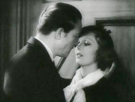 Cropped screenshot of Warren William and Loretta Young from the trailer for the film Employees' Entrance